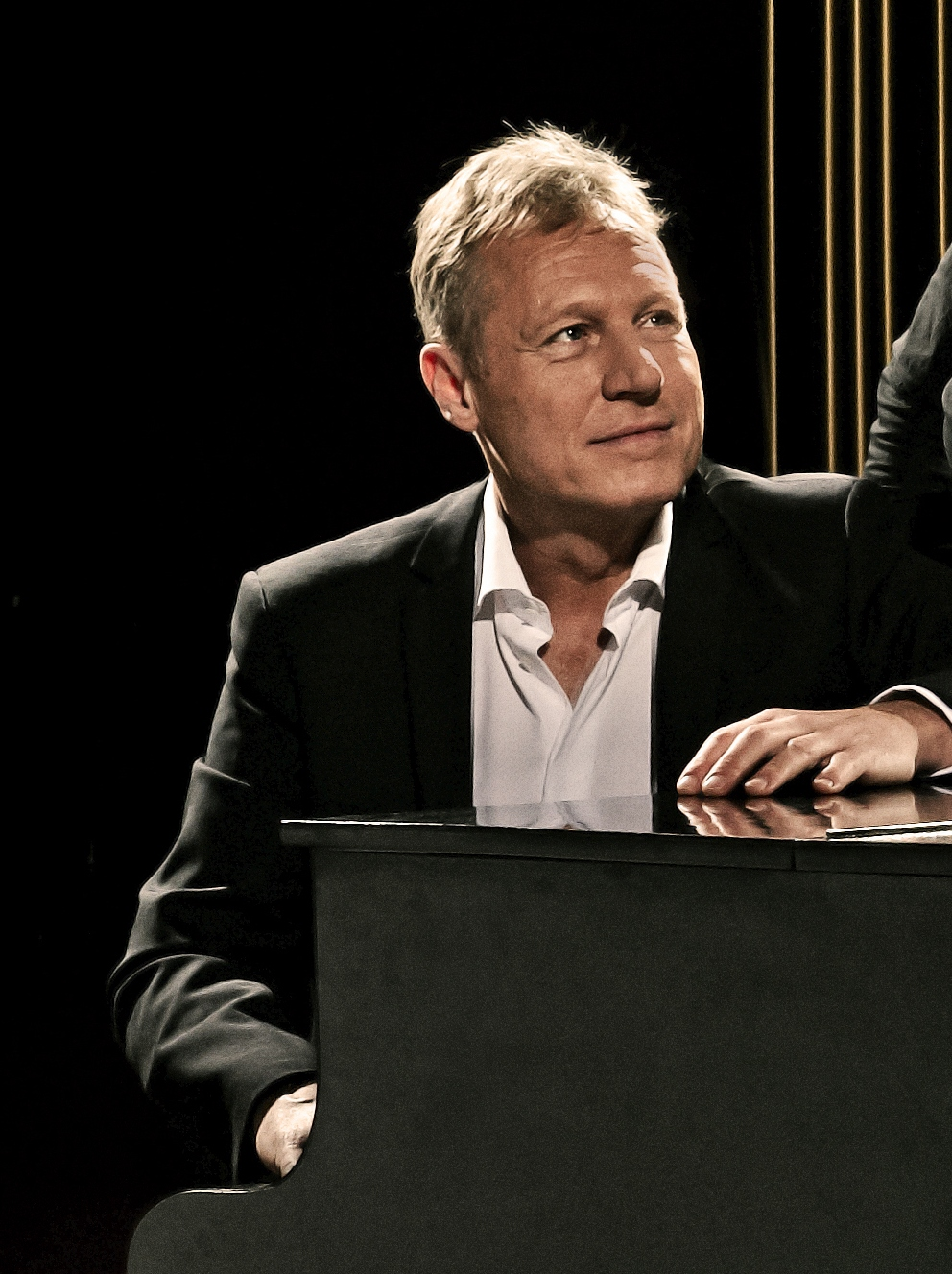 Jens Krøyer in the Copenhagen theater Folketeatret's production of the play "Liva" about the actress Liva Weel.